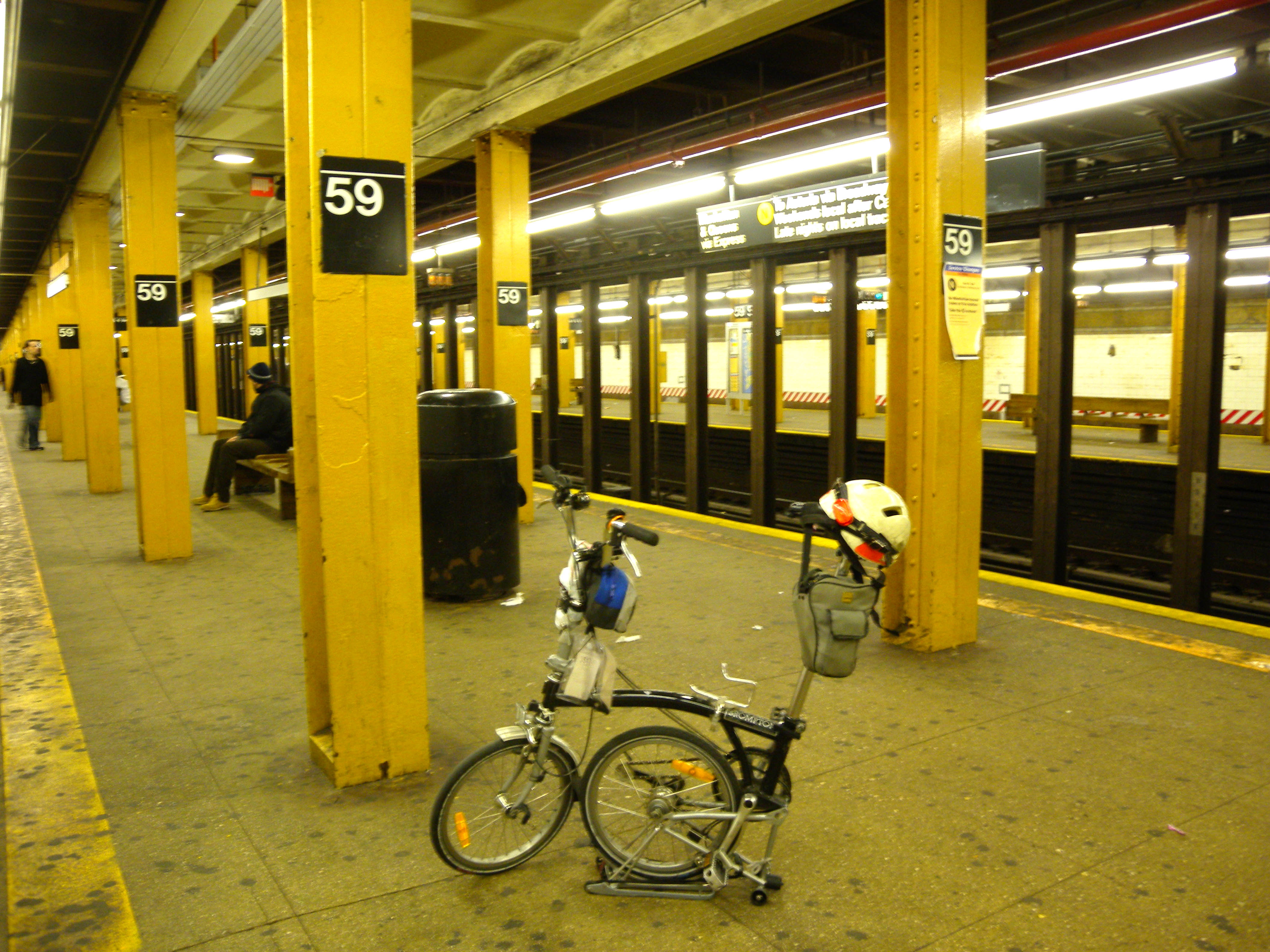 Looking southwest in 59th Street station after sagging out of the "Lights in the Heights" group ride.